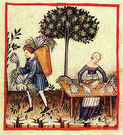 Leeks (Pori) Nature: Warm in the third degree, dry in the second. Optimum: The kind called naptici, that is, from the mountains and with a sharp odor. Usefulness: They stimulate urination, influence coitus and, mixed with honey, clear up catarrh of the chest. Dangers: Bad for the brain and the senses. Neutralization of the Dangers: With sesame oil and with the oil of sweet almonds. Effects: They cause hot blood and an acute crisis of the bile. They are primarily indicated for cold temperaments, for old people, in Winter, and in the Northerly regions. From the Tacuinum of Vienna